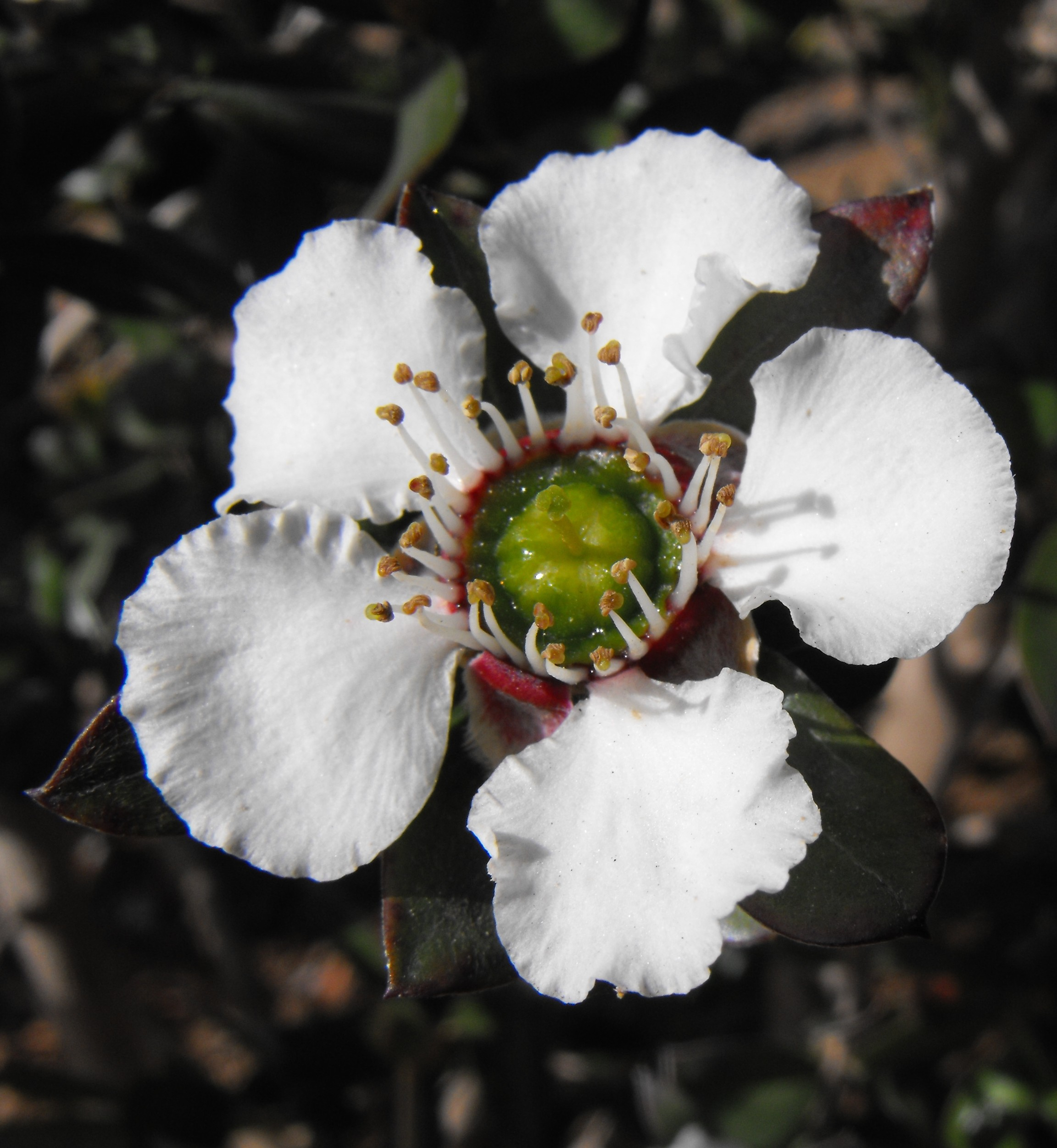 Leptospermum turbinatum 'Flat Rock' in the Water Conservation Garden at Cuyamaca College, El Cajon, California, USA. Identified by sign.